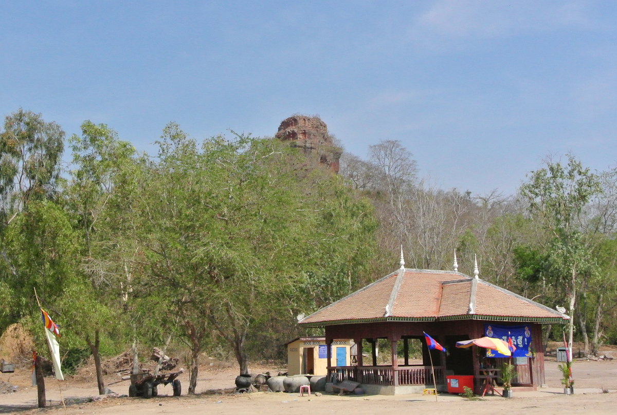 Phnom da temple in Angkor Borey site.